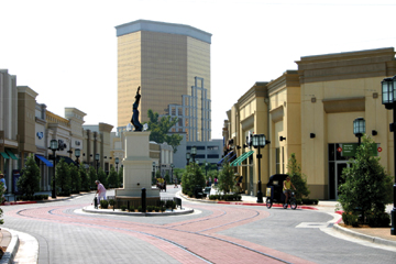 Picture taken by Justin Bryan Galloway of the Forum Newsweekly Magazine in Shreveport, Louisiana. The owner of this photo is the one who uploaded it. Any questions can be directed to I give full release of this image. Taken August 2005, at the Louisiana Boardwalk in Bossier City, Louisiana.